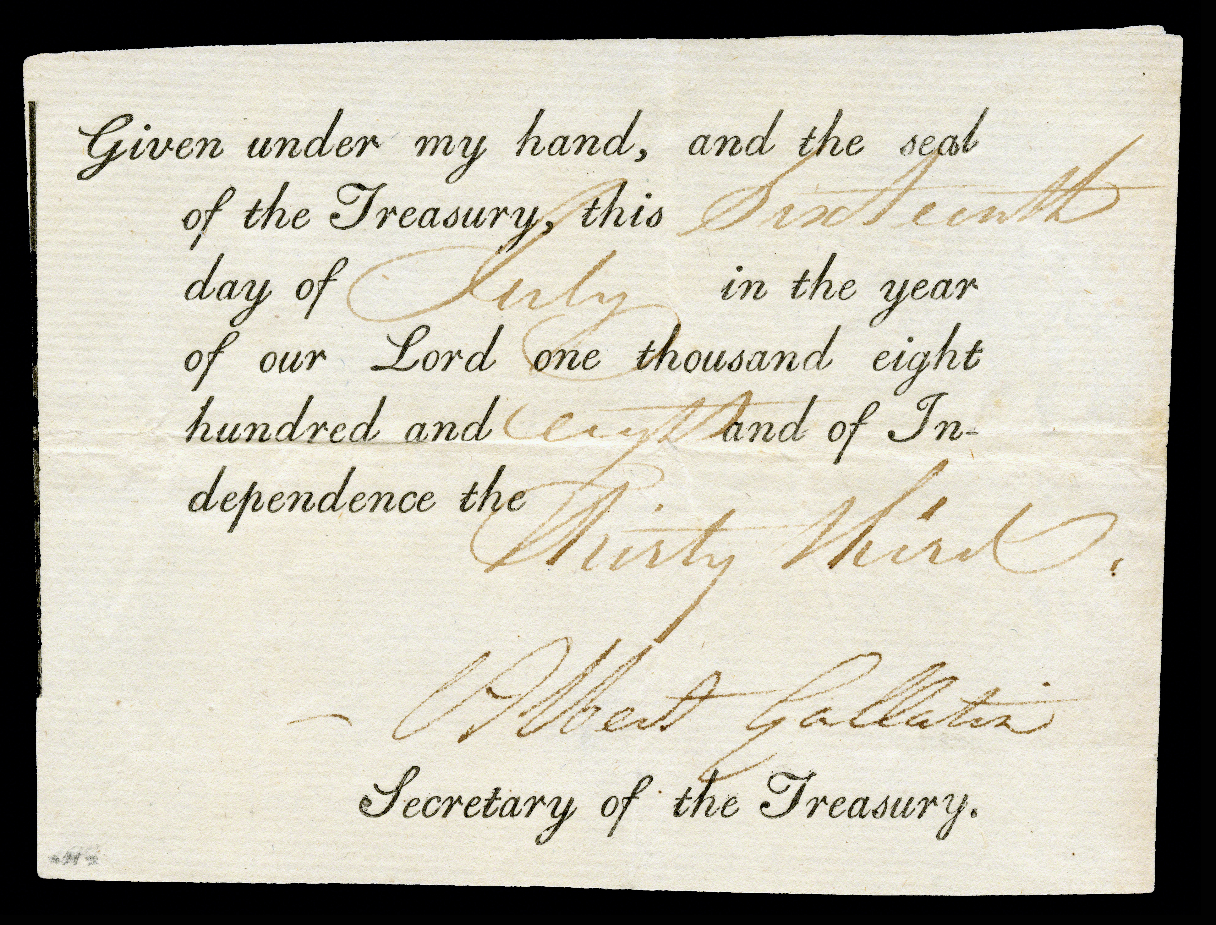 Signature of Albert GallatinFrom the National Numismatic Collection, NMAH, Smithsonian Institution.